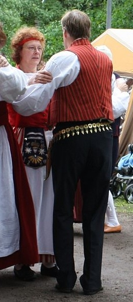 Traditional folk dress. Cropped from Folk Dance Keravapäivä IMG 4879 C.JPG